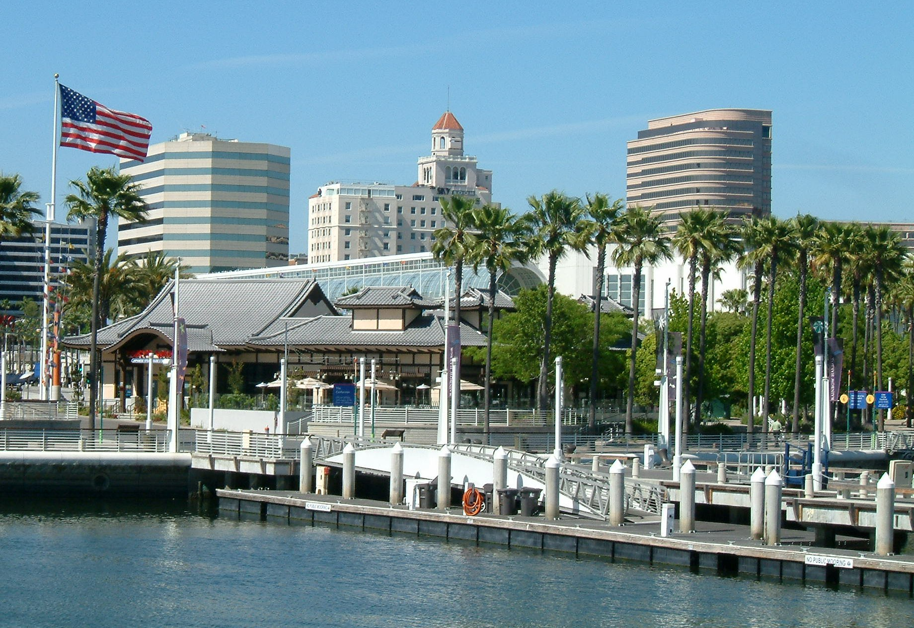 Long Beach, California, United-States.